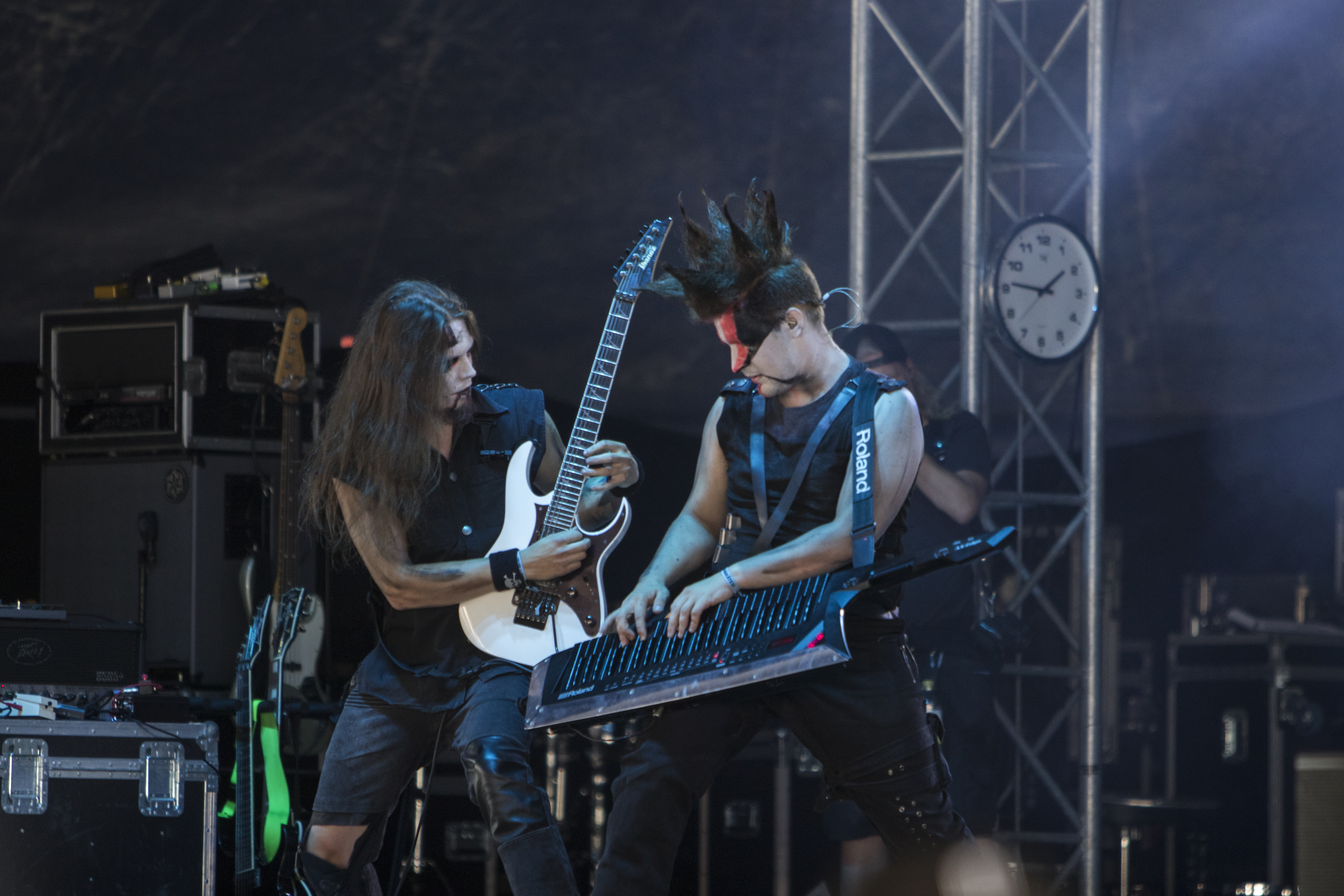 Fear of Domination at Tuska Open Air Metal Festival 2019 in Helsinki, Finland (Kalasatama)